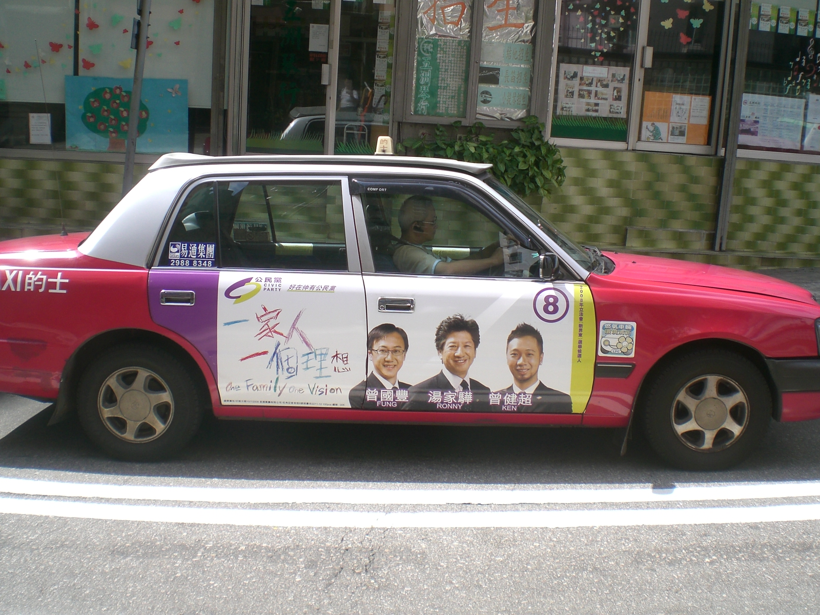 zh:2008年香港立法會選舉在香港島 曾國豐和湯家驊團隊